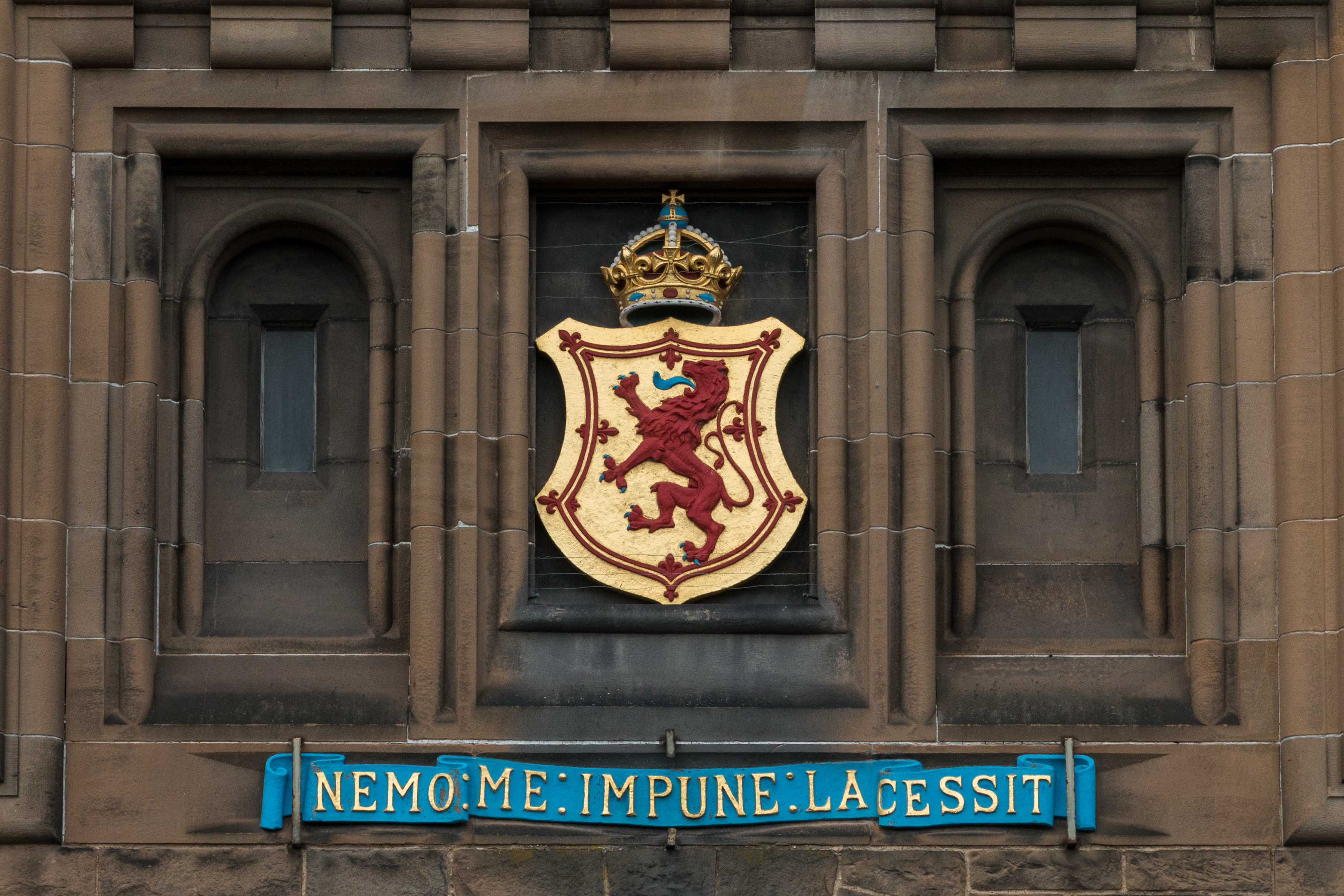 Inscription above the gate of Edinburgh Castle "Nemo me impune lacessit" - No one "cuts" (attacks) me with impunity. Nemo me impune lacessit is the Latin motto of the Order of the Thistle and of three Scottish regiments of the British Army.